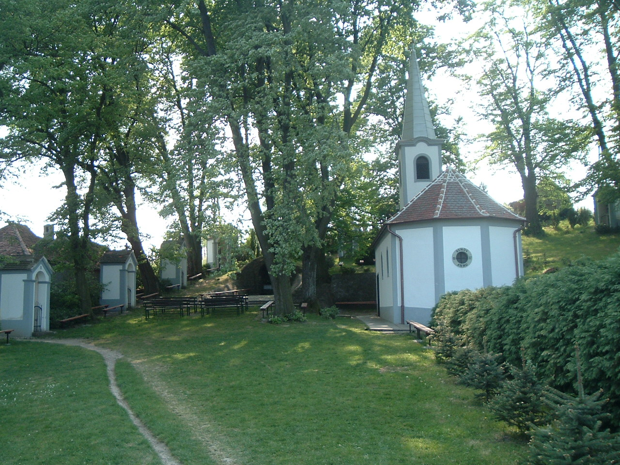 Our Lady of Sorrows chapel in Gencsapáti